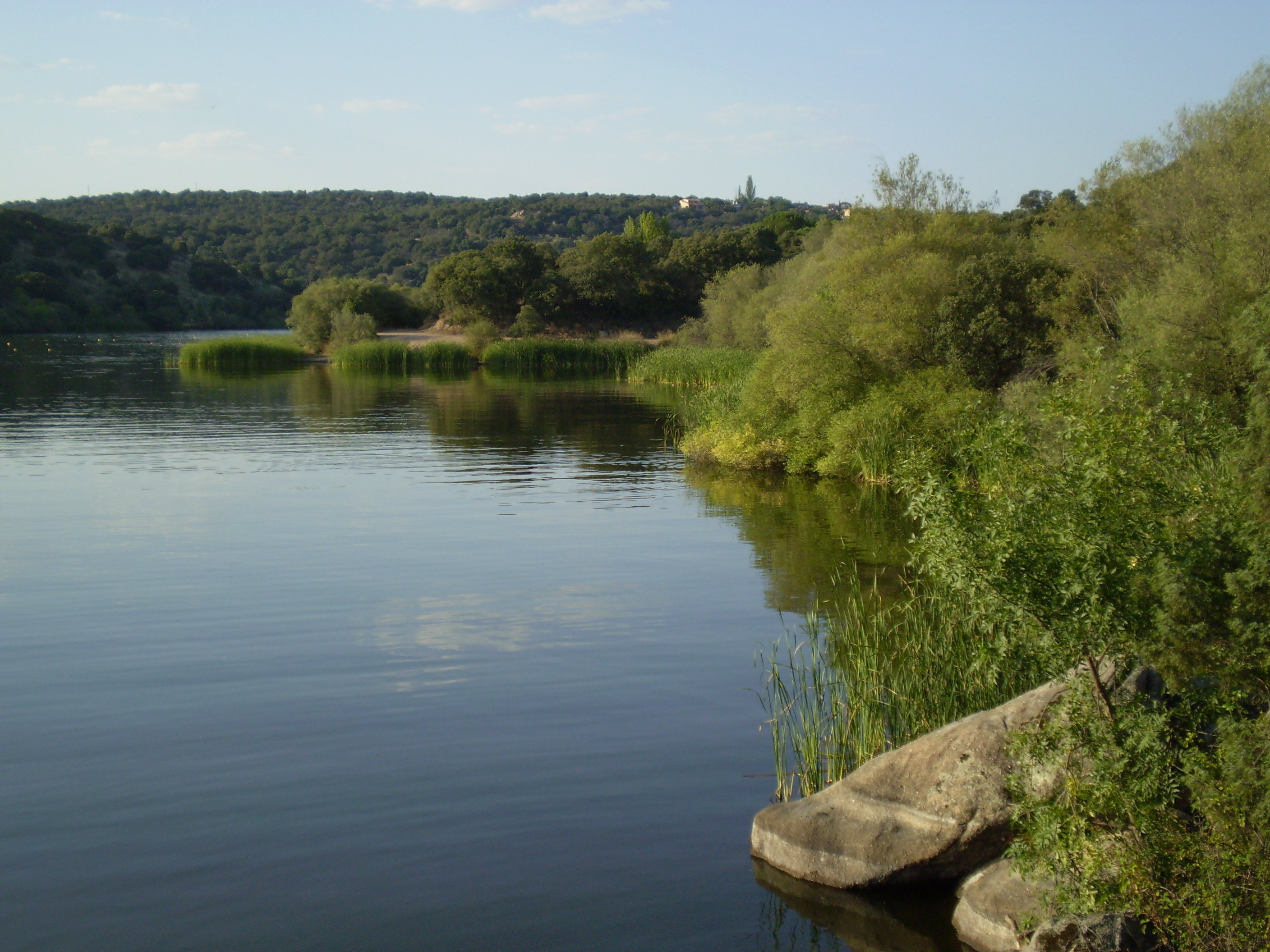 Cerro Alarcón Reservoir, over Perales River. Community of Madrid, Spain